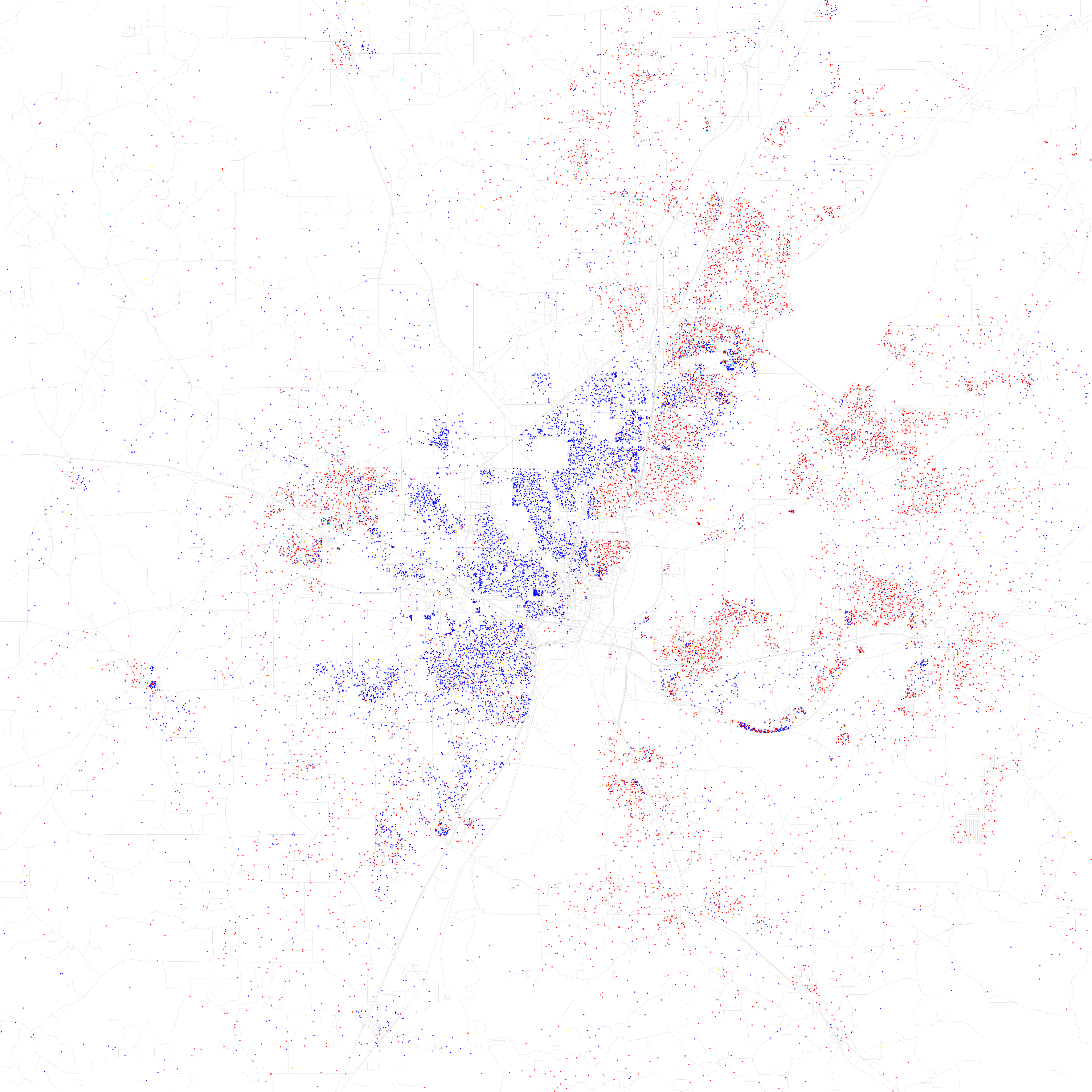 Maps of racial and ethnic divisions in US cities, inspired by Bill Rankin's map of Chicago, updated for Census 2010. Red is White, Blue is Black, Green is Asian, Orange is Hispanic, Yellow is Other, and each dot is 25 residents. Data from Census 2010. Base map © OpenStreetMap, CC-BY-SA